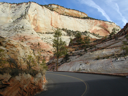 Scenic Highway 9 on the east side of Zion National Park.